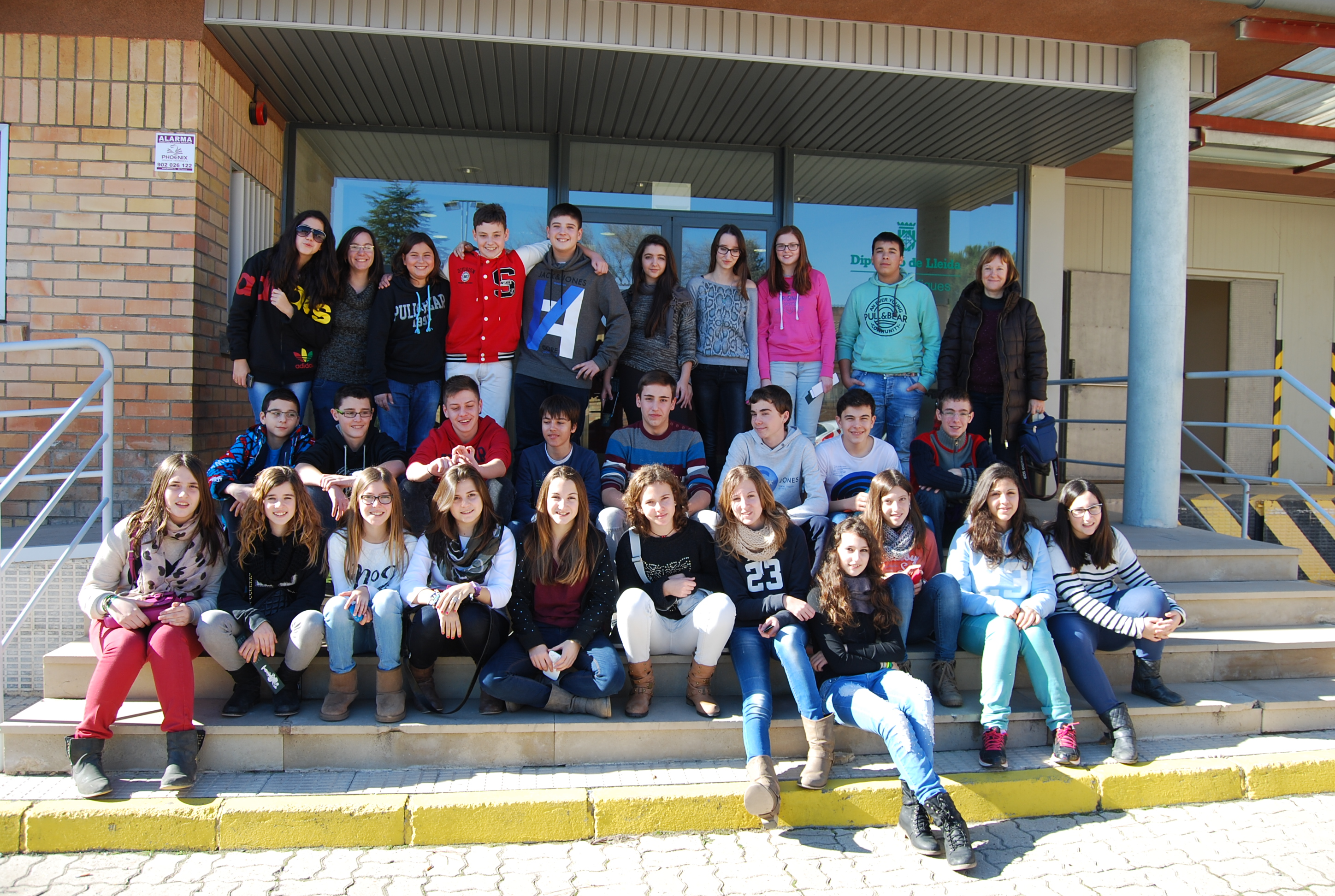 Sala temàtica d'arts gràfiques de Lleida